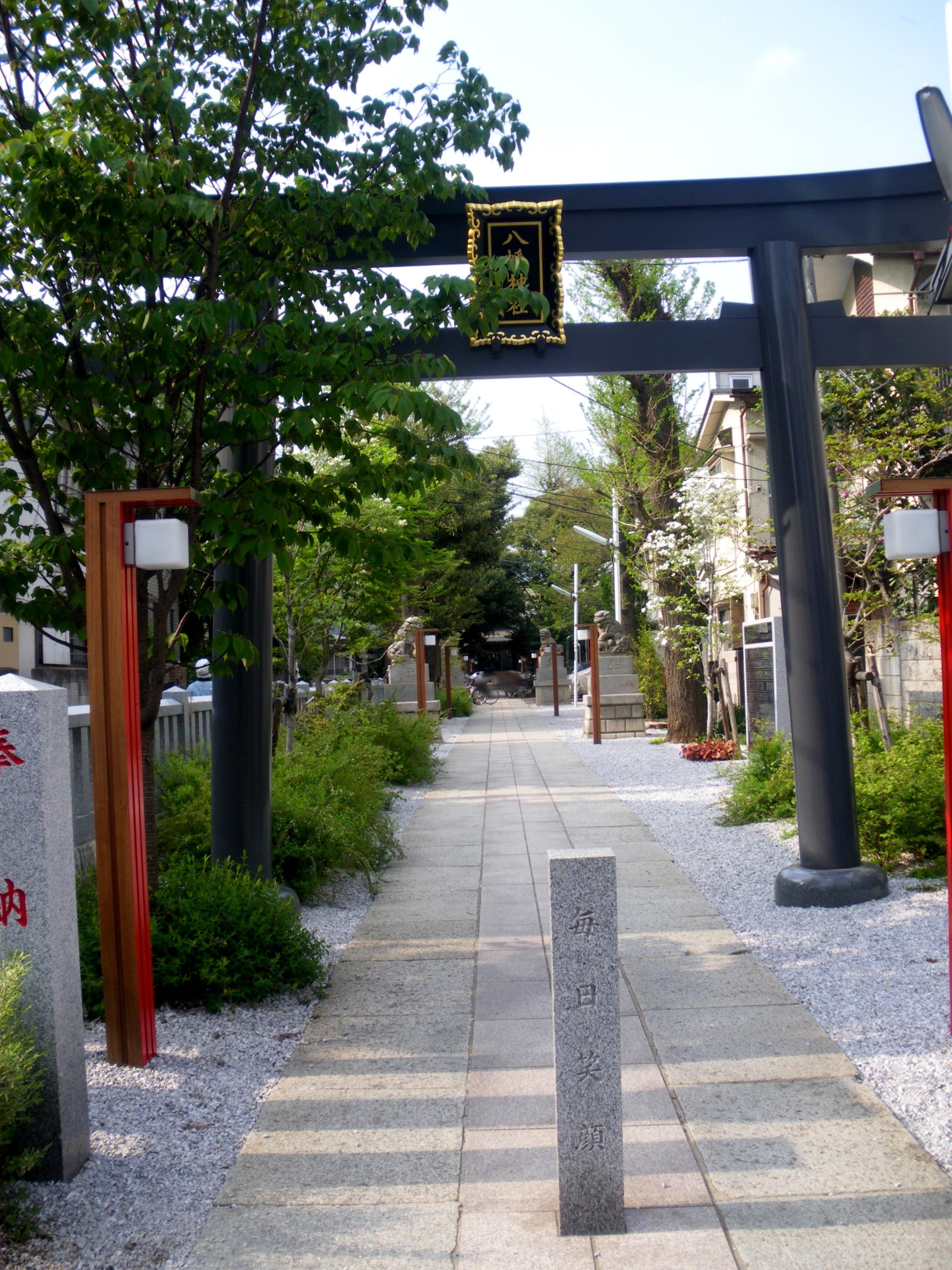 Hachiman Jinja(Yamatocho,Nakano,Tokyo)